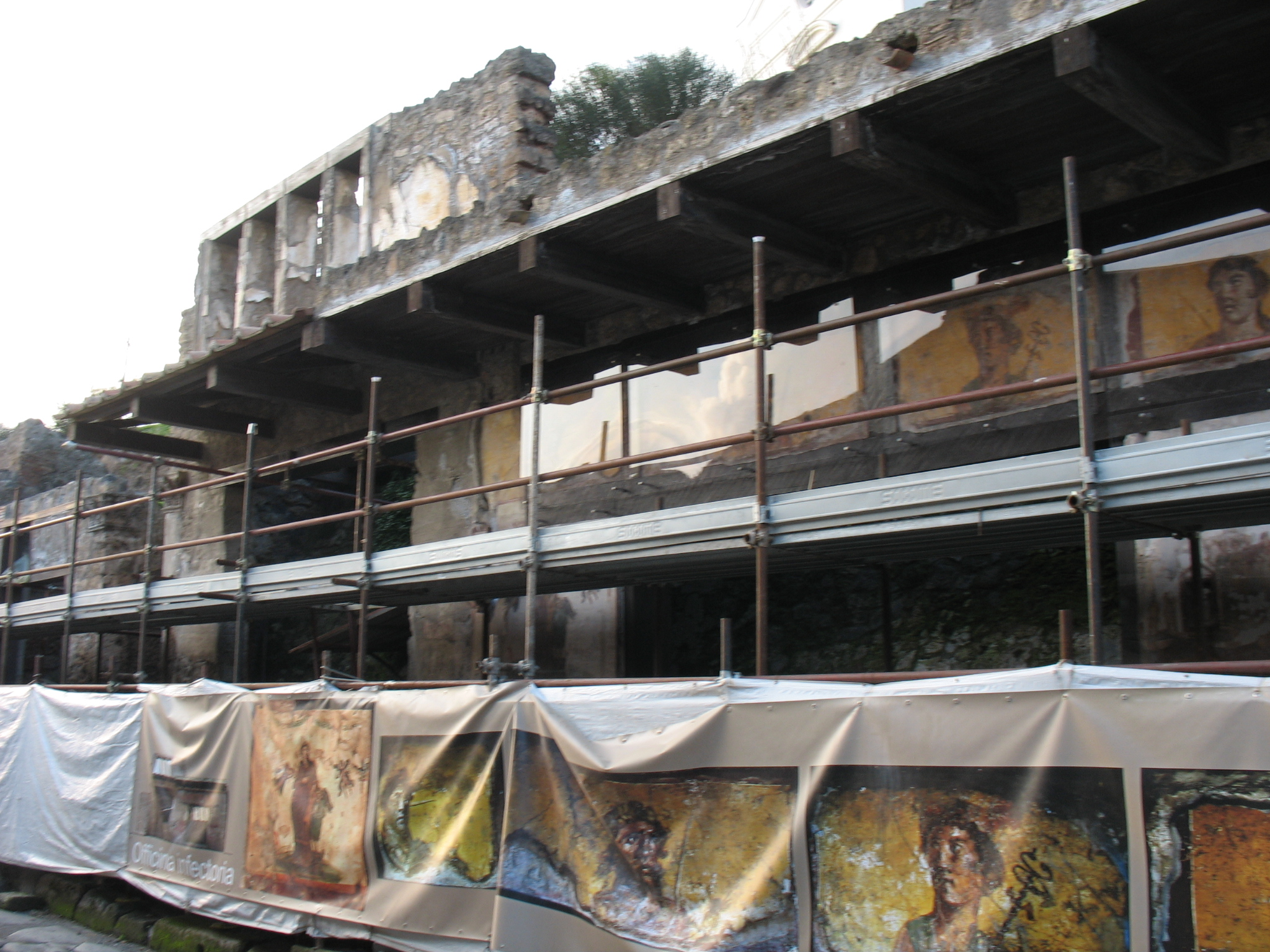 A photograph of scaffolding for conservation and restoration work on the Via dell'Abbondanza, a street in Pompeii, taken by myself on January 16, 2006.